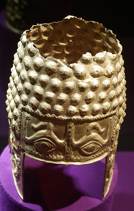 A Geto-Dacian helmet dating from the first half of the 4th century BC, uncovered by chance. Top front view.